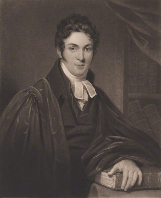 Portrait of Gerard Thomas Noel (1782–1851), Church of England cleric.